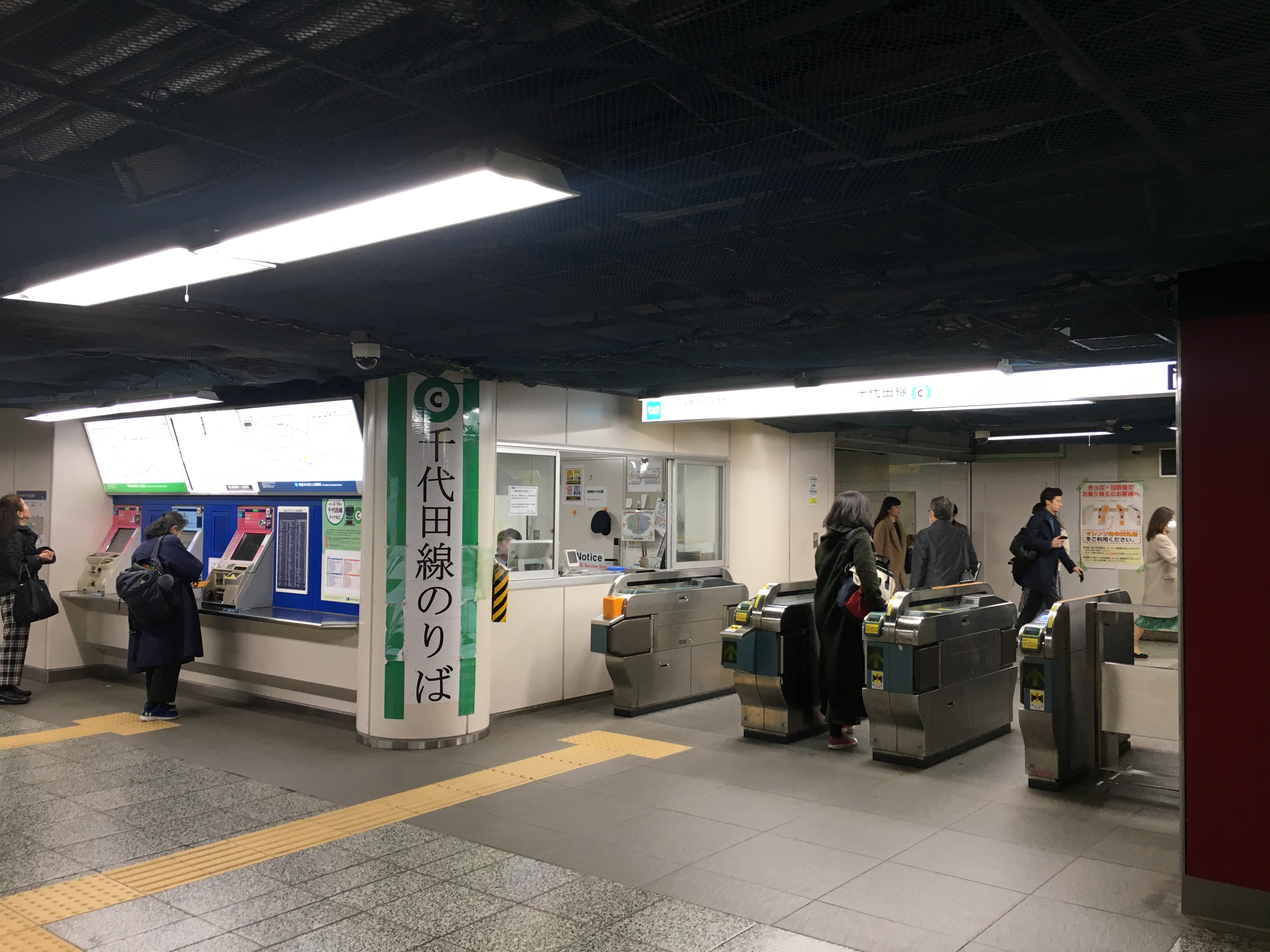 千代田線、日比谷駅の改札 (Chiyoda Line, Hibiya Station ticket gates)